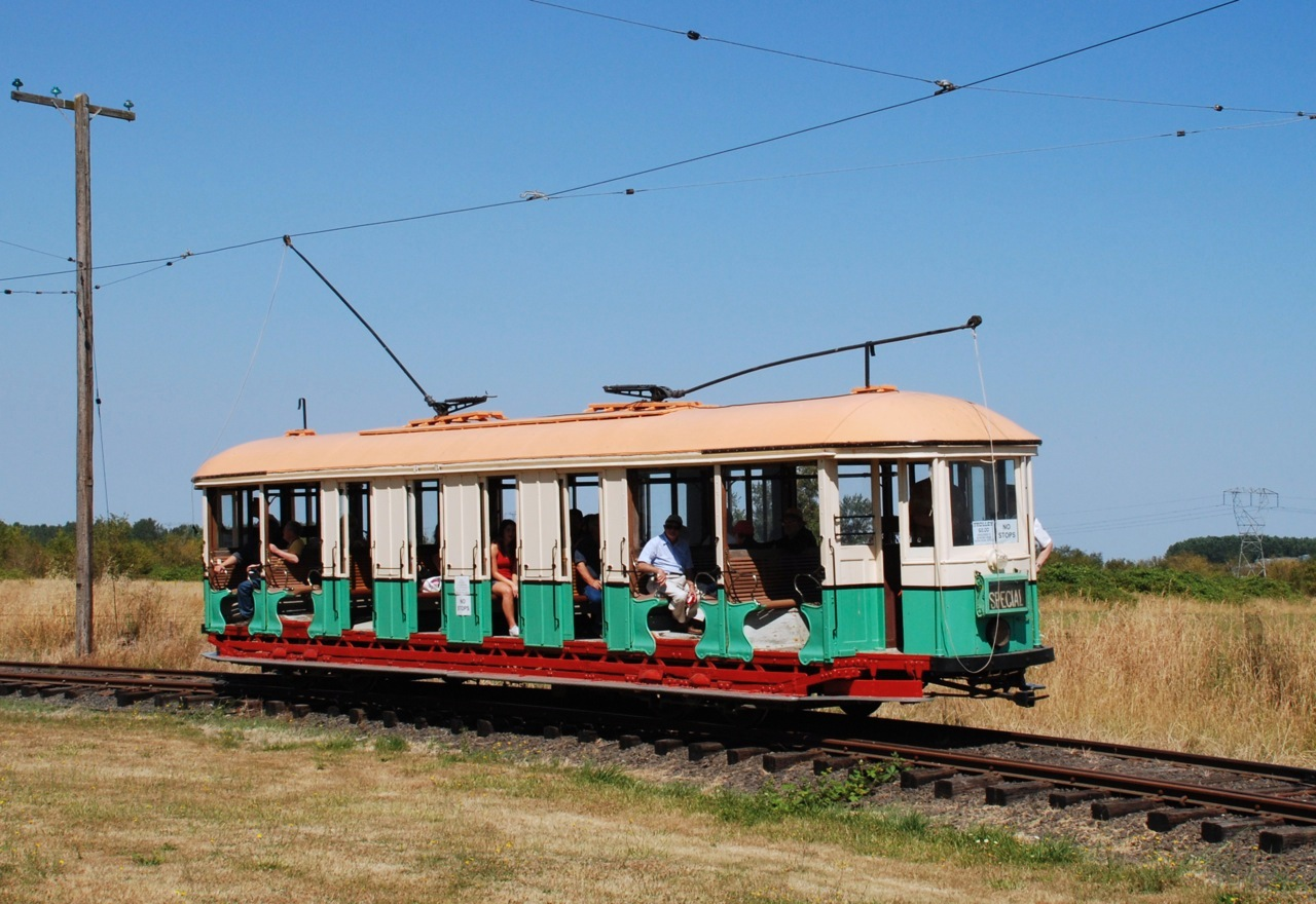 An ex-Sydney, Australia semi-open streetcar operating at the Oregon Electric Railway Museum, at Antique Powerland, in Brooks, Oregon. Car 1187 was built in 1912 by the Meadowbank Manufacturing Company (in Sydney).